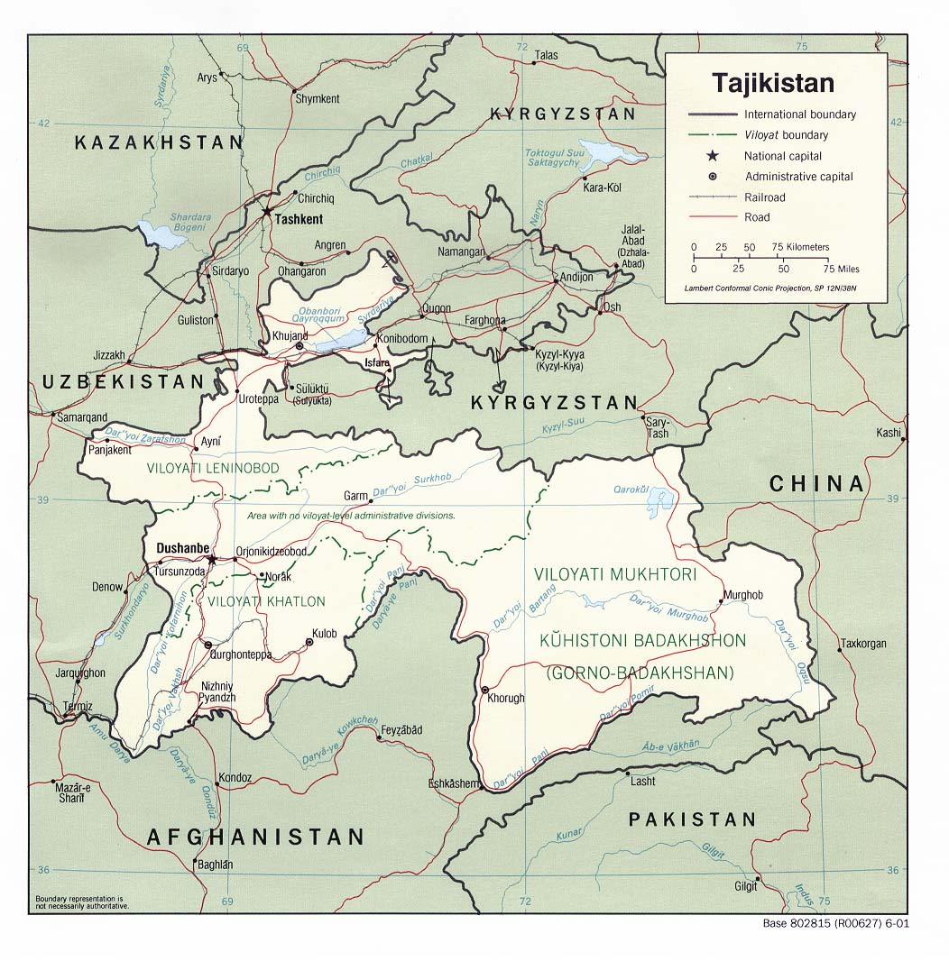 A map of Tajikistan, prepared by the CIA.